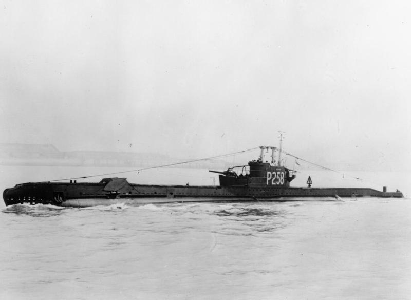 British S class submarine HMSM SCORCHER underway on the Mersey.